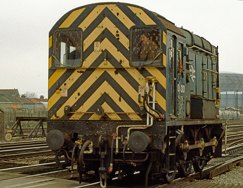 BR Class 09 0-6-0 shunter 09001 in BR blue livery at Mount Pleasant level crossing, Northam in 1989. Scanned from a Kodachrome 35mm slide.